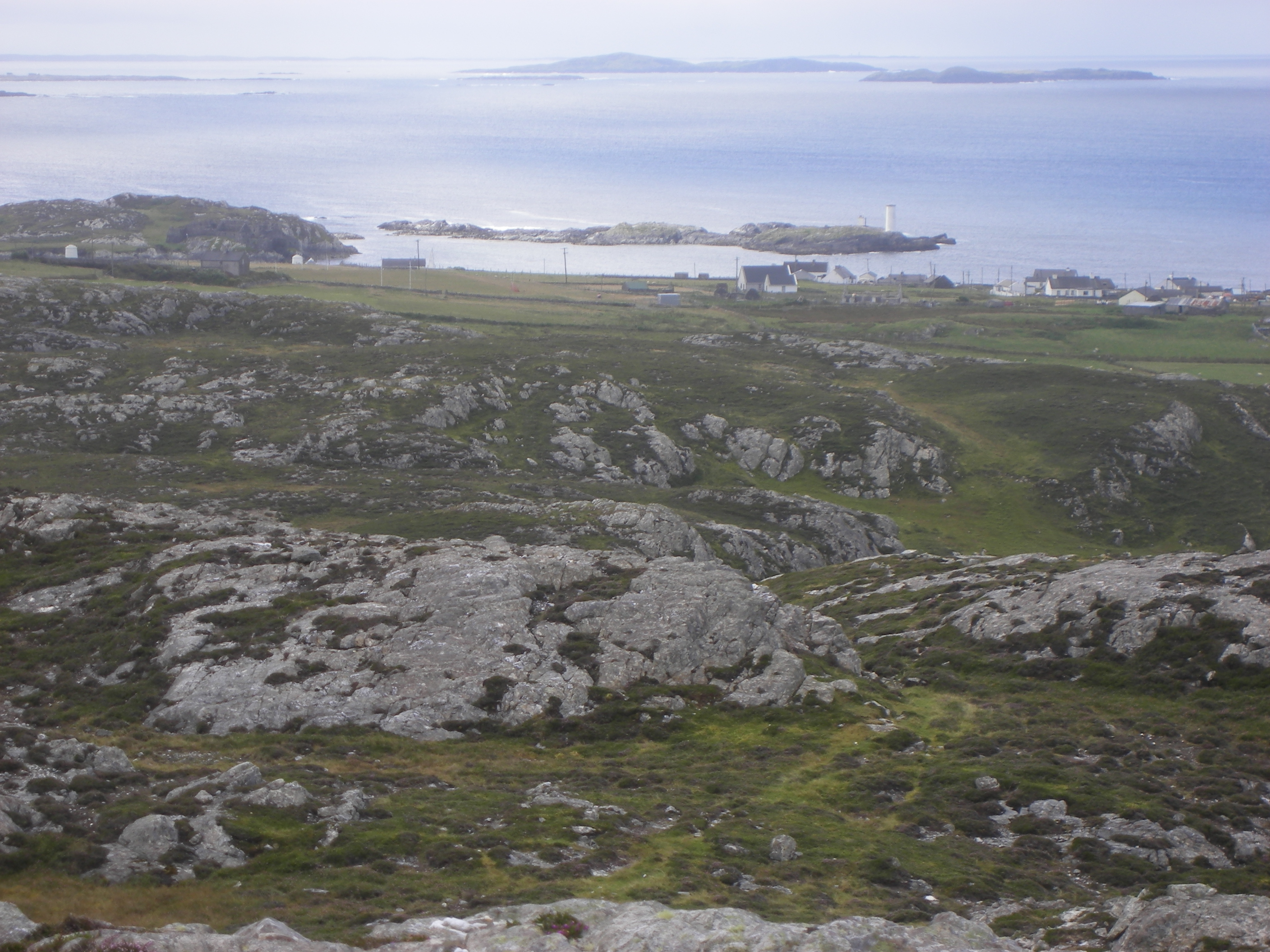 Inishbofin, Galway, Ireland. Landscape 11. Photo d'Alvaro, 2006-08-06